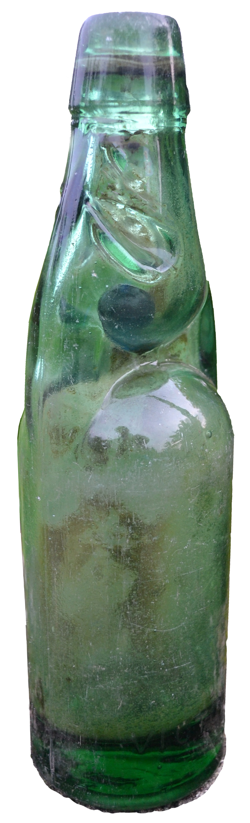 A typical Codd-neck glass bottle from Thrissur in the state of Kerala, India. Such bottles used to be in great circulation until a few decades ago for distributing carbonated drinking water (Soda Water), all over India and elsewhere. However, after the introduction of cheaper and safer crown-top bottles, their use was reduced to almost extinction. This bottle was found from the salvaged remains of a defunct mini-convenience store and was photographed just before it would be permanently mounted (fixed by concrete) as a show-piece atop the gate of a local brickyard.